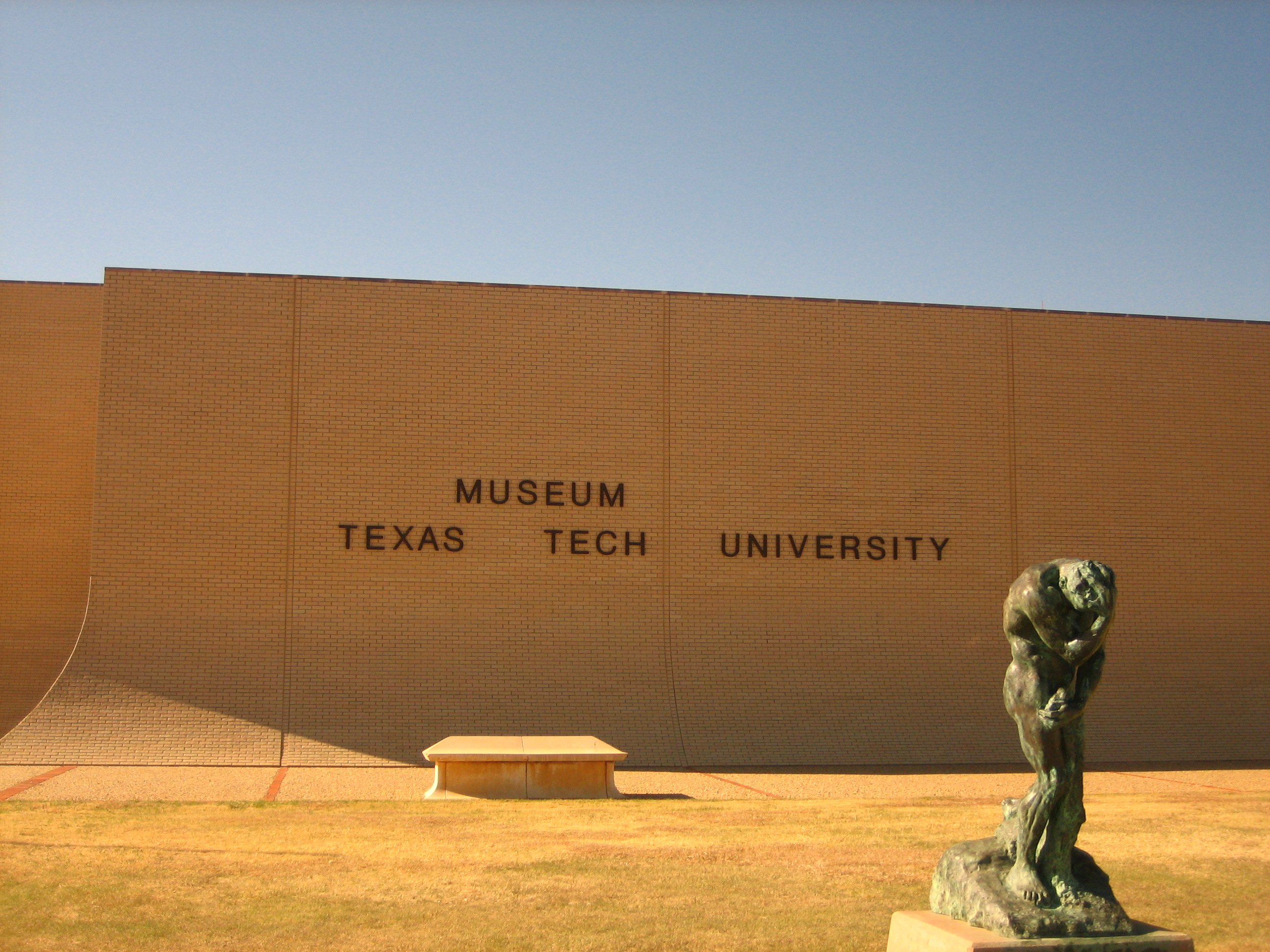 I took photo on April 3, 2009.Billy Hathorn (talk) 04:15, 10 April 2009 (UTC)